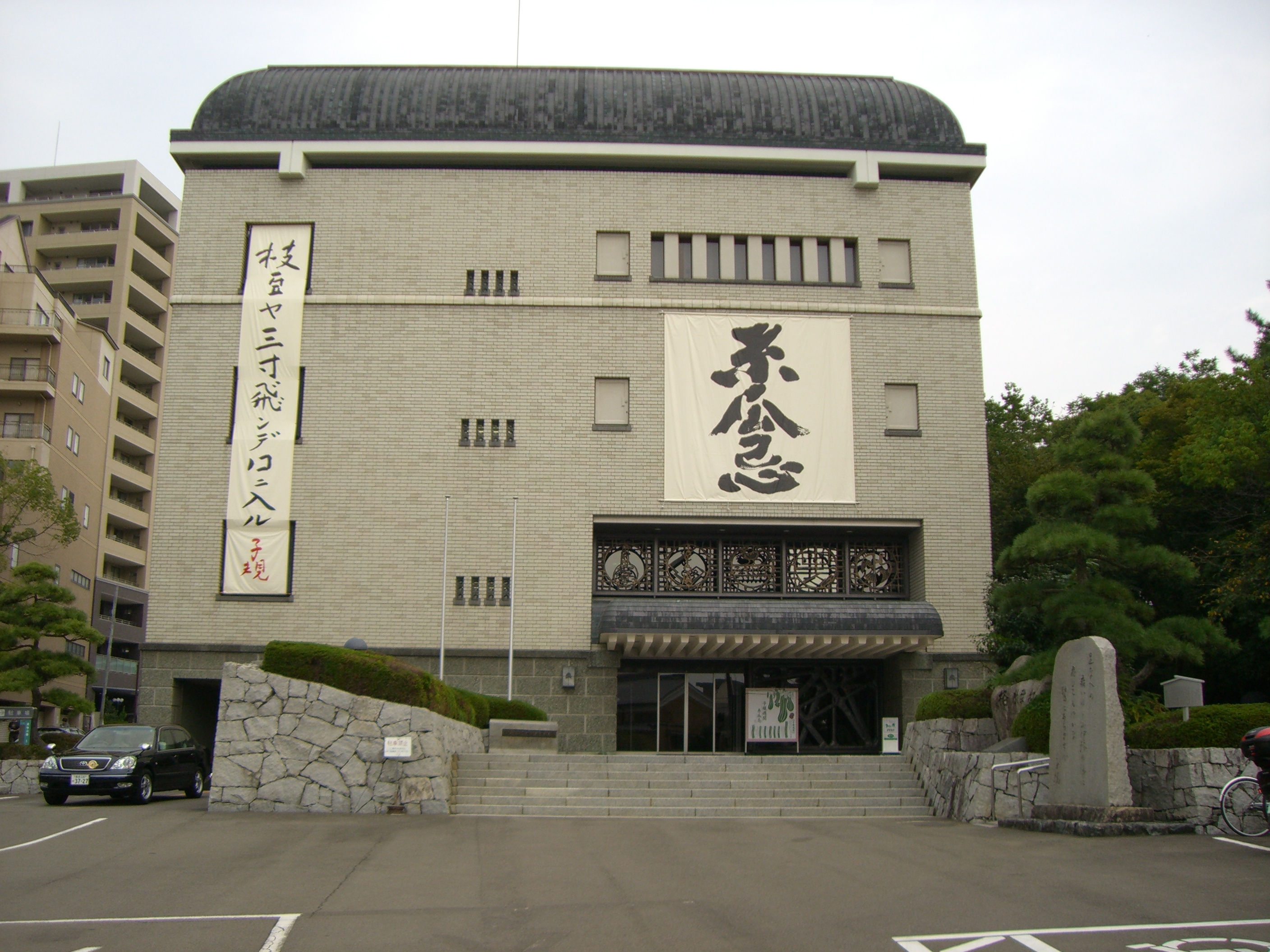 “Shiki Memorial Museum” The goal of this facility is to help create a new modern culture founded on a deep understanding of Matsuyama's traditions and history through the life and times of author Masaoka Shiki. The Museum features a permanent exhibit of Shiki's letters, manuscripts, books and other items as well as a lecture hall on the 4th floor where various events are held